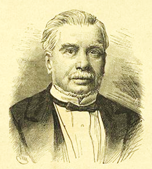 José de Melo Gouveia (1815 - 1893), Portuguese minister during the Constitutional Monarchy.